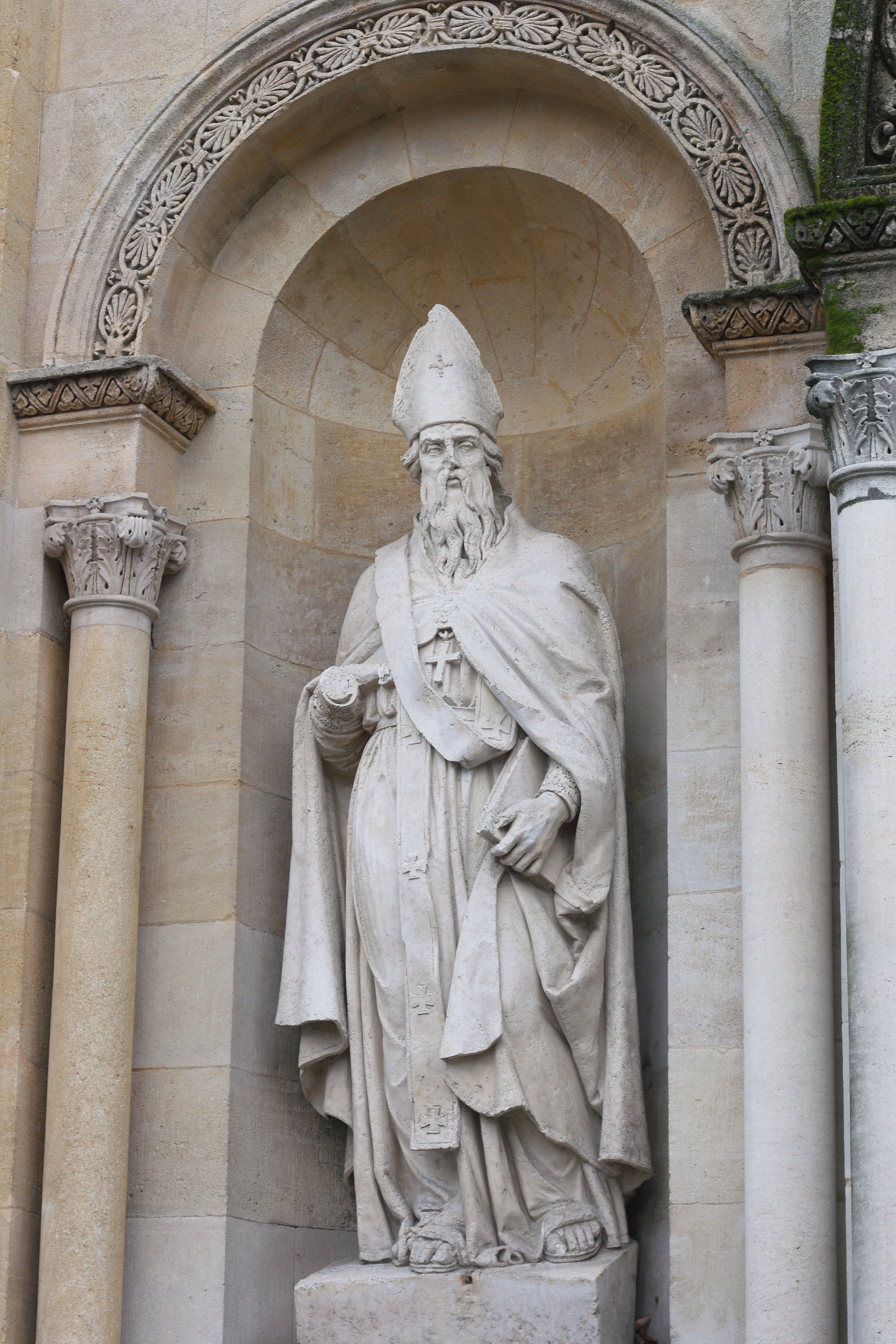 katholische Pfarrkirche Saint-Seurin in Bordeaux